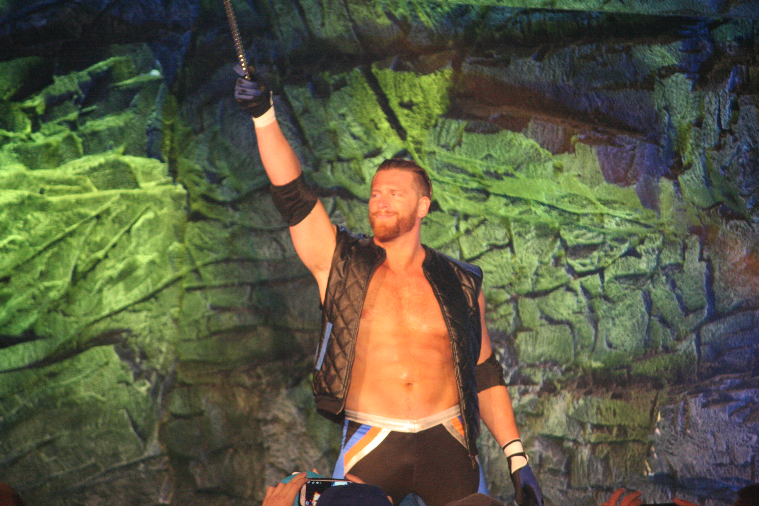 Brian Myers coming to the ring in 2015.